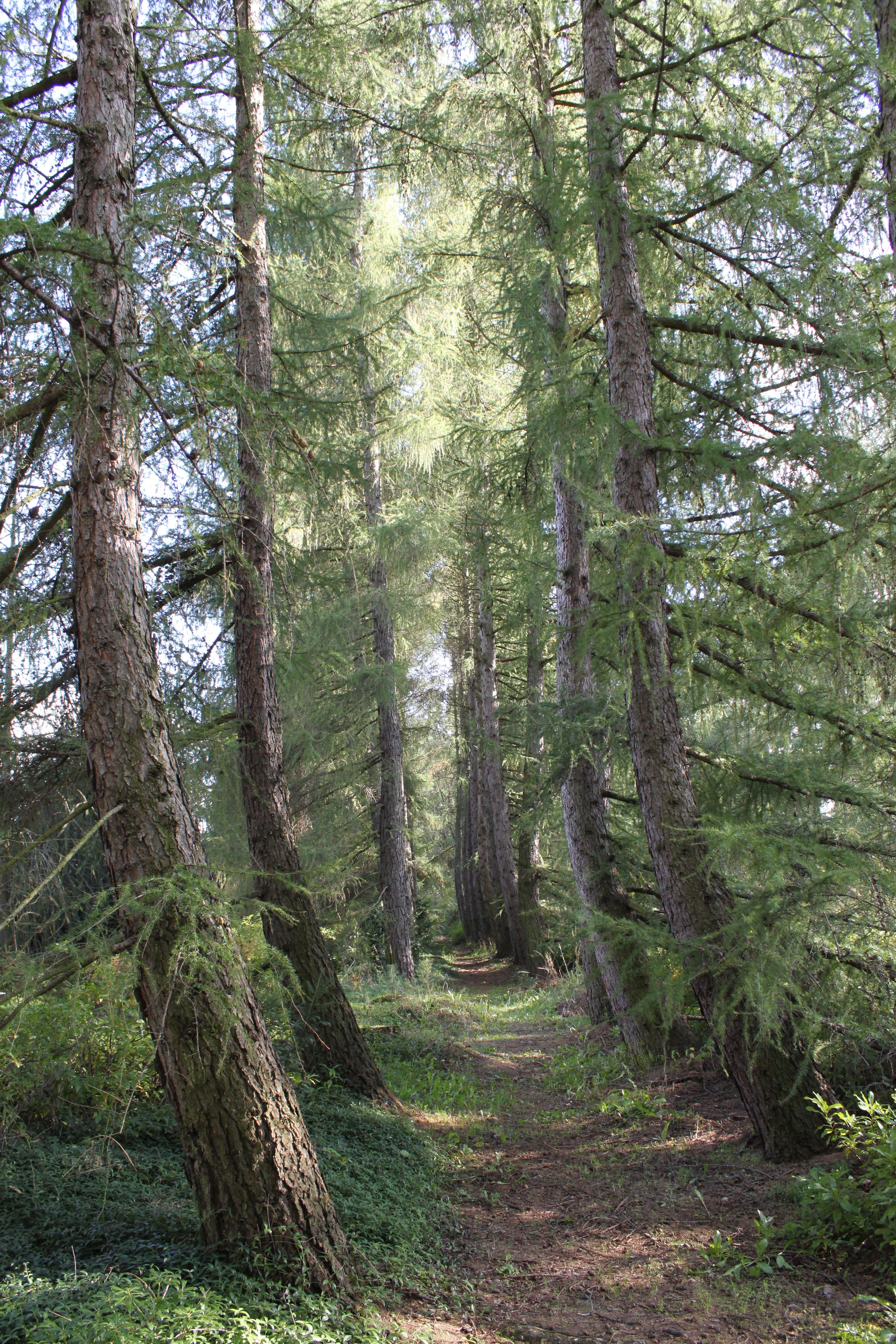 Larix decidua in PAN Botanical Garden in Warsaw, Poland